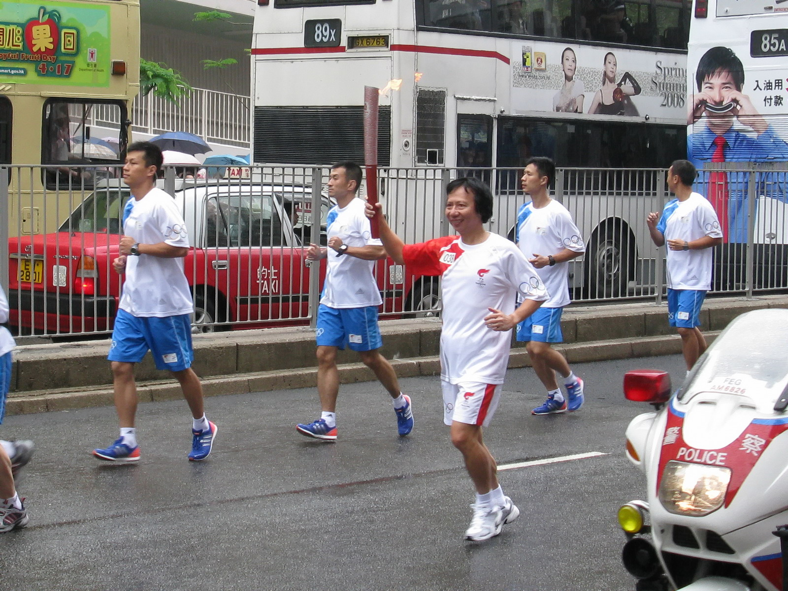 KWOK Ping Kwong, Torchbearer No.38, Olympic Torch Relay in Hong Kong